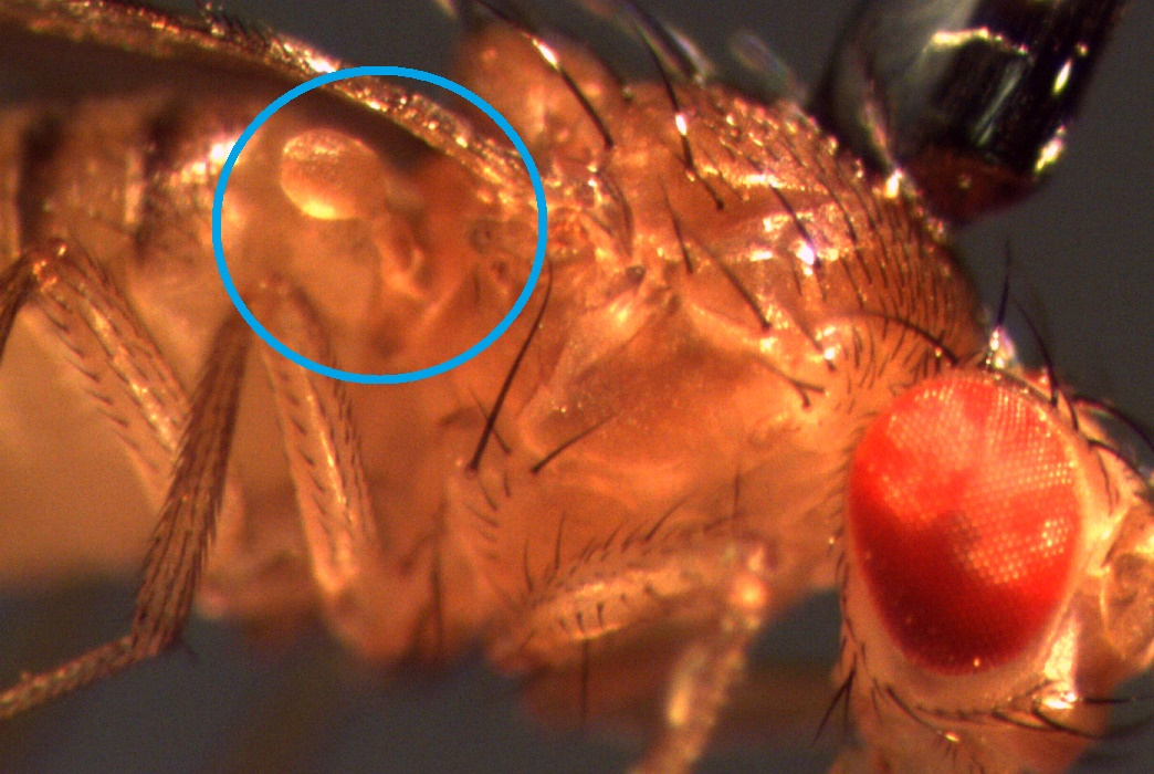 drosophila haltere